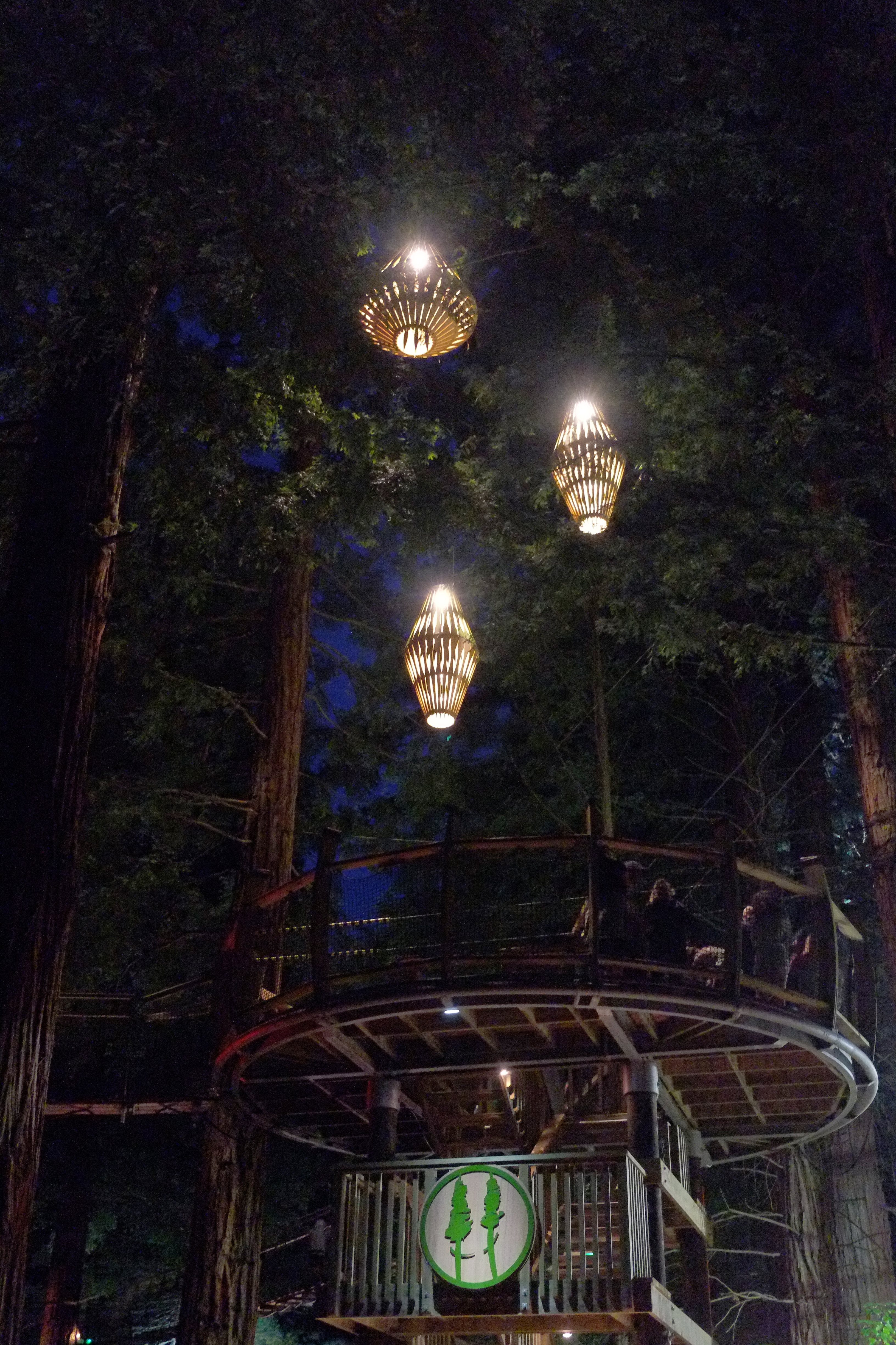 Lit wooden sculptures suspended above the Redwoods Treewalk entrance tower at night